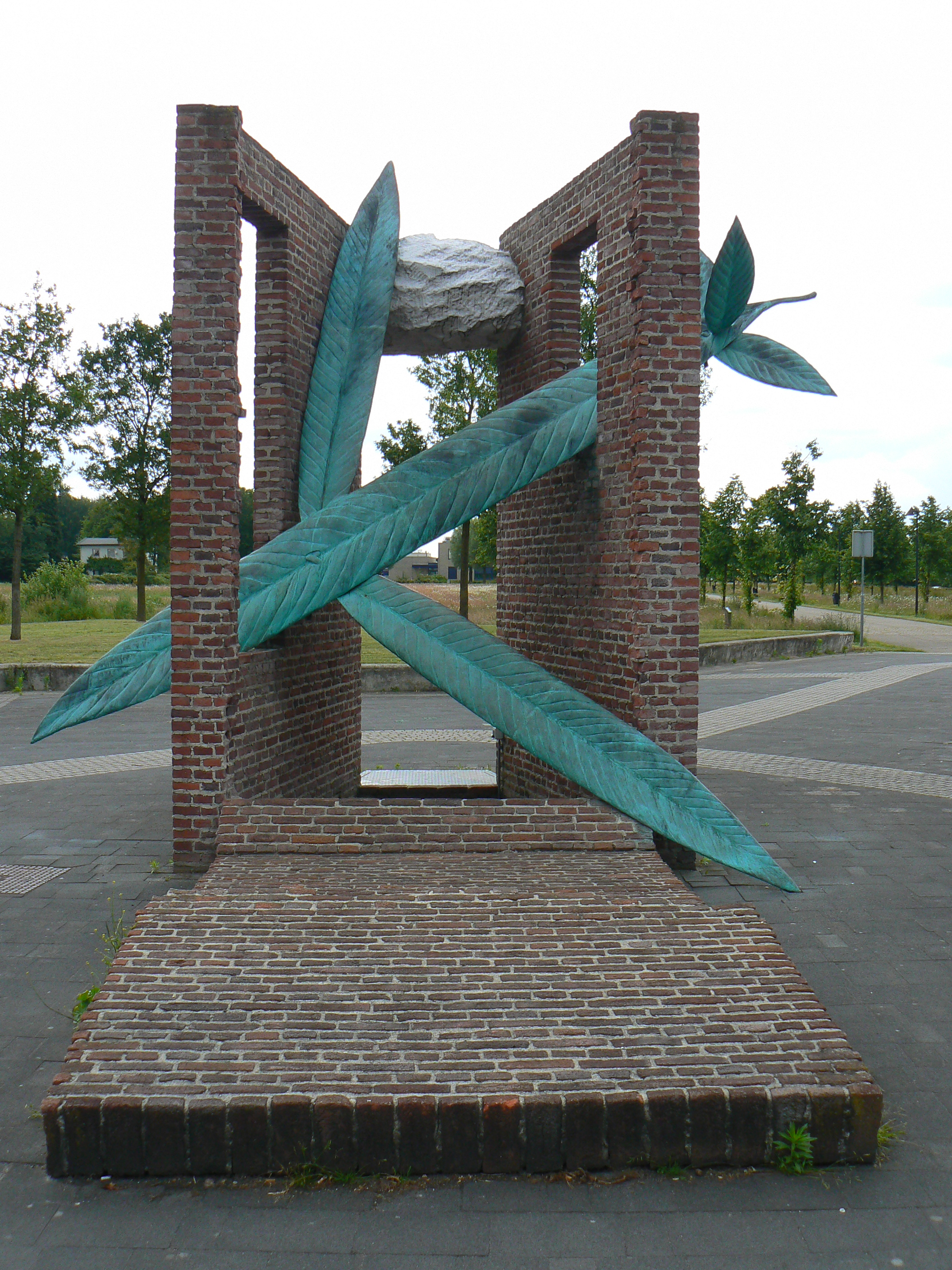 Sculpture The Beauty of Rising and Falling (2001) by Thom Puckey at the entrance of Noorder Dierenpark in Emmen/The Netherlands